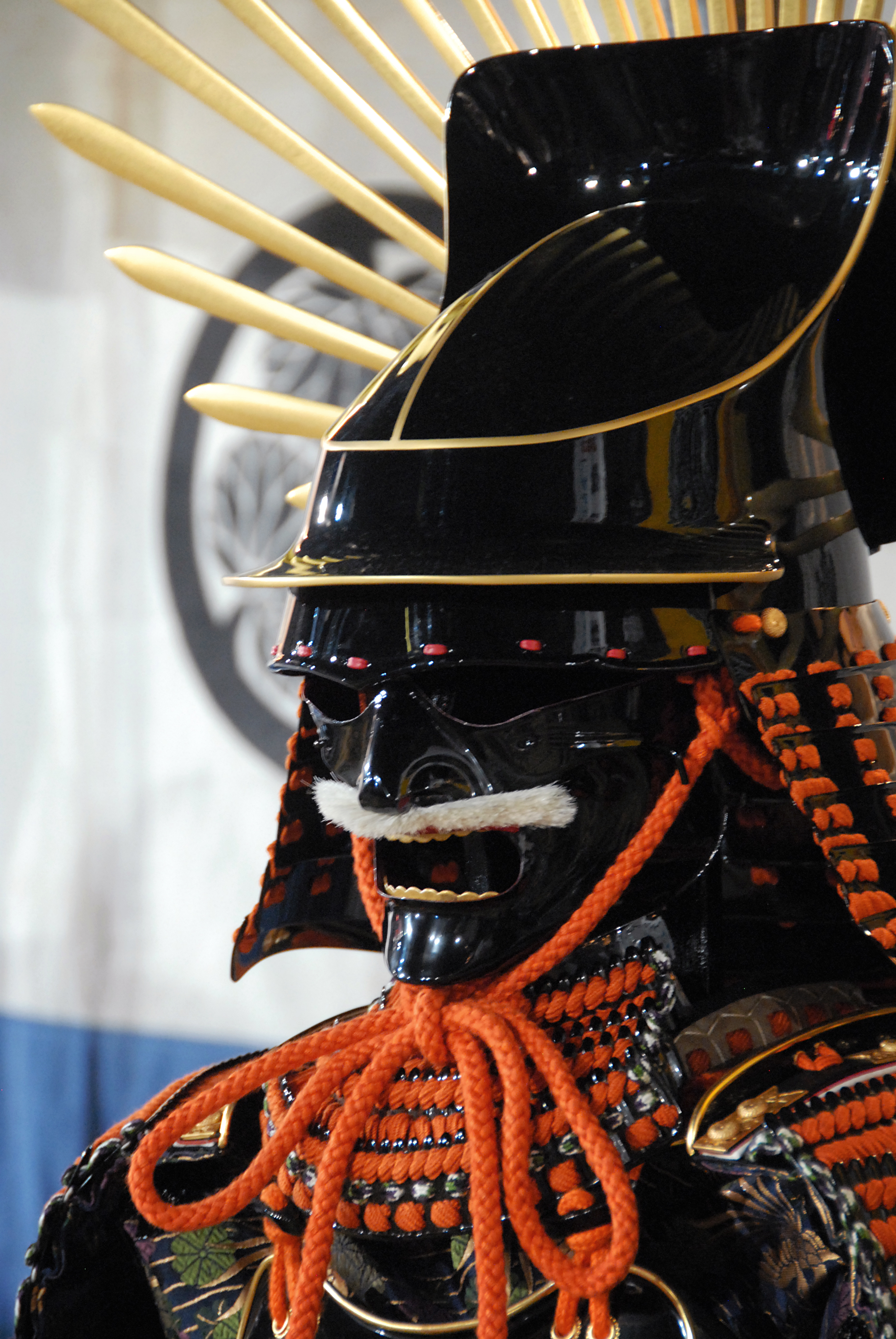 The armor of Hideyoshi Toyotomi